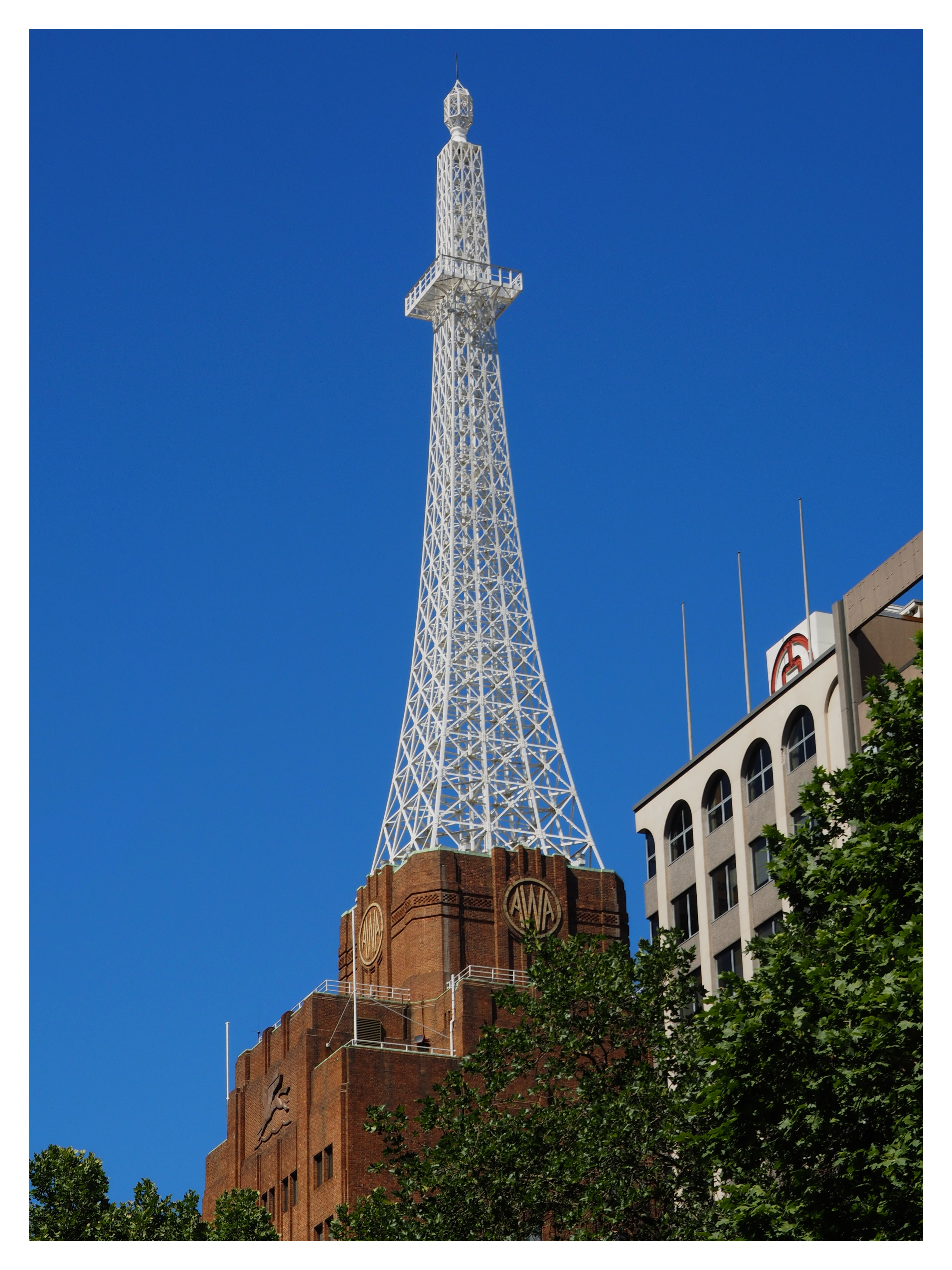 The AWA Tower is an office and communications complex in Sydney, in the state of New South Wales, Australia built for Amalgamated Wireless Australasia Limited. The AWA Tower consists of a radio transmission tower atop a 15-story building. The AWA Tower was designed by architects Morrow and Gordon from 1937–1939 and became one of the most notable commercial buildings of Sydney.